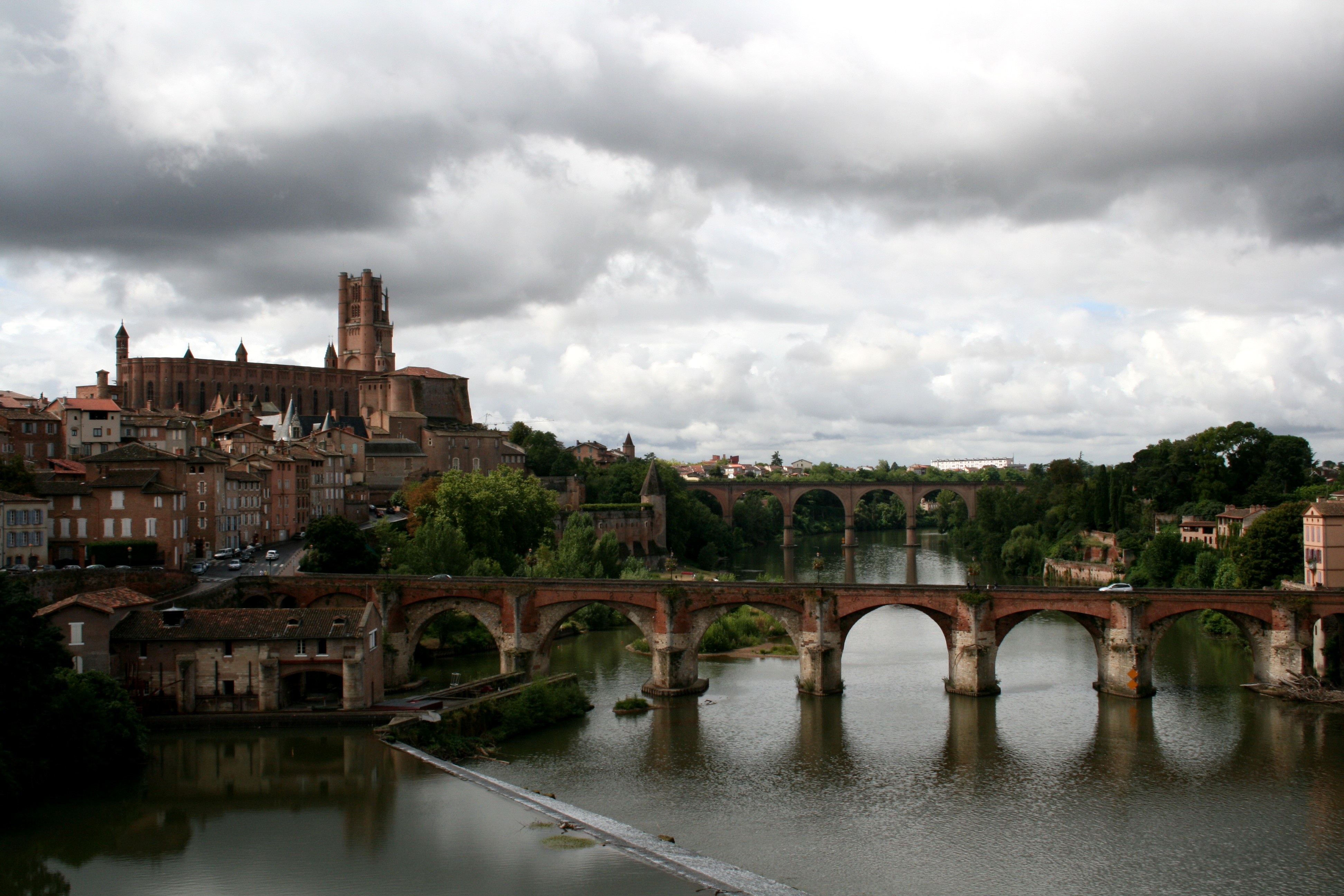 Albi, a city in France